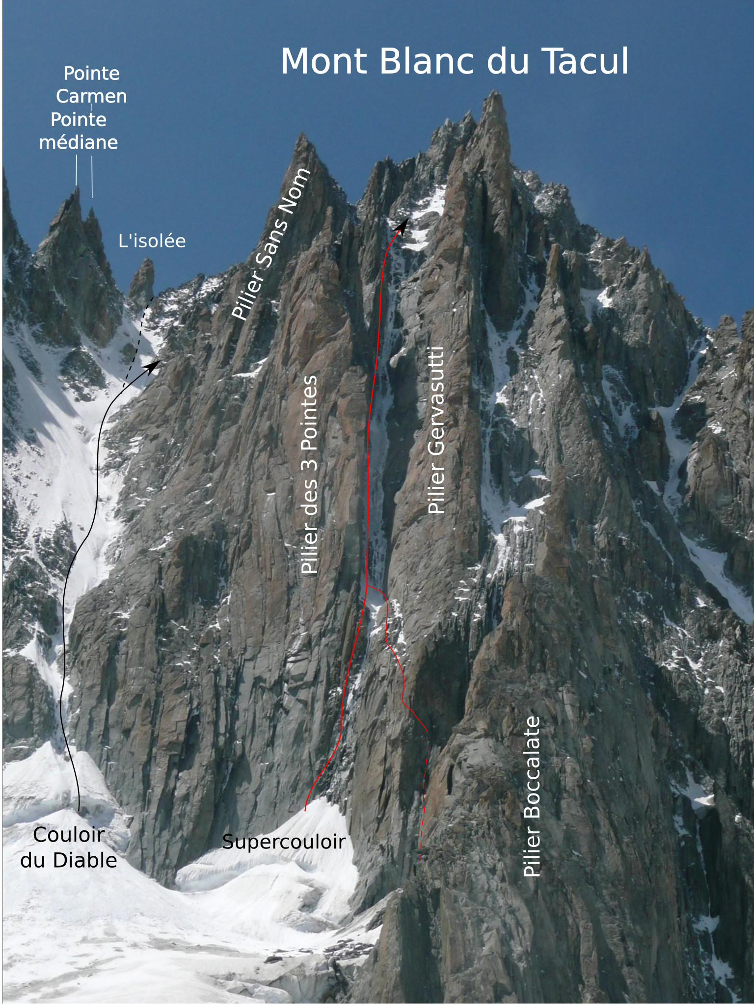 Mont Blanc du Tacul - East face